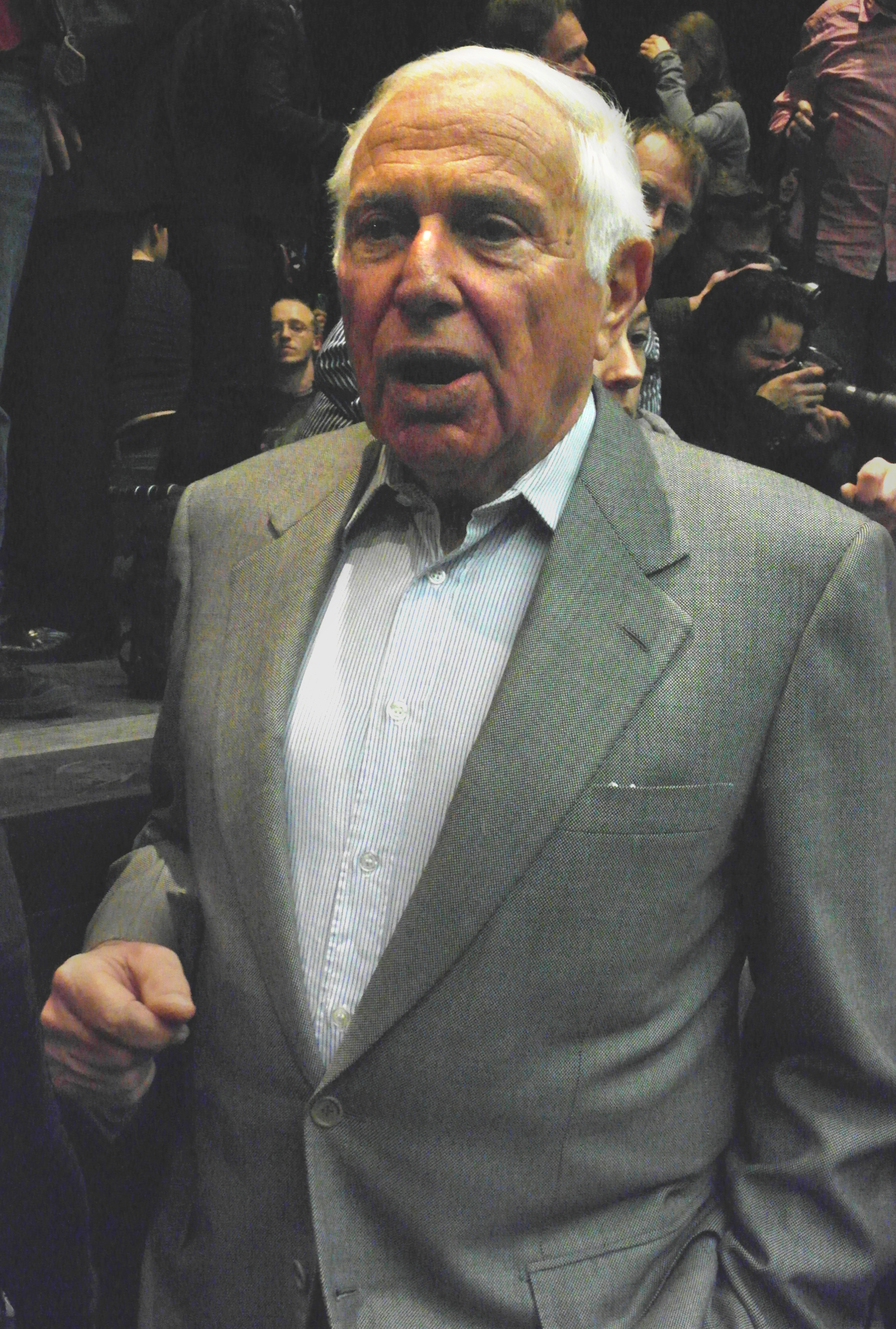 Vienna 2011-01-17 Ioan Holender Please note that camera's EXIF time stamp is set to UTC.